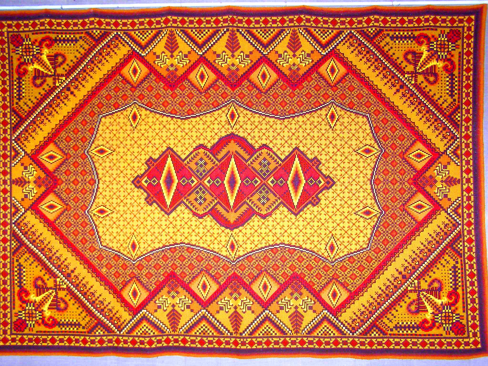 Traditional carpet at Berezhany museum, Berezhany, Ternopil Oblast, western Ukraine.